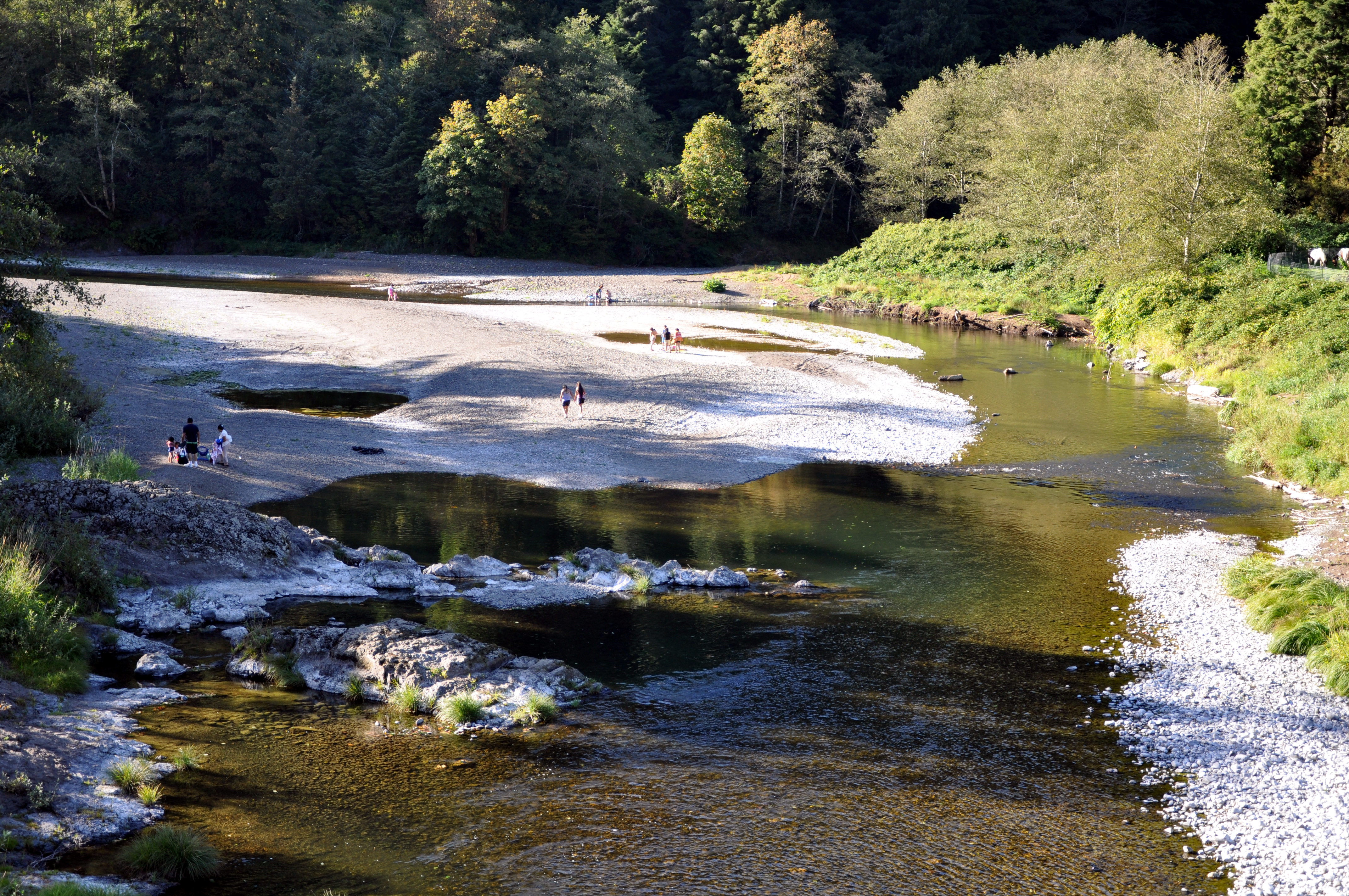 Wilson River upstream of Tillamook, Oregon, in the United States. View is downstream (north) from a bridge carrying State Route 6 over the river.